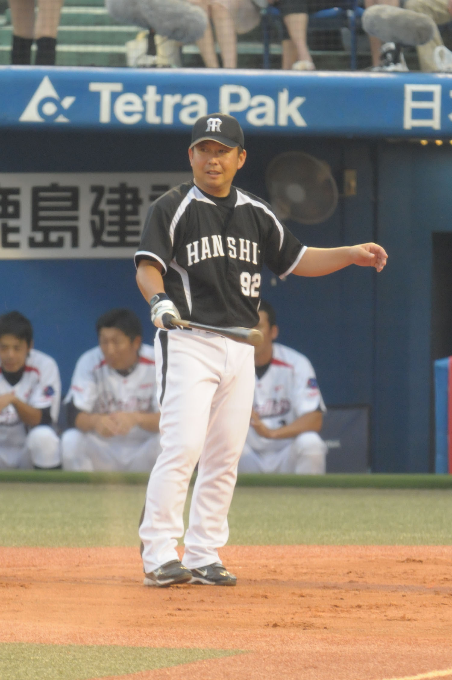 Teruyoshi Kuji, coach of the Hanshin Tigers, at Meiji Jingu Stadium.